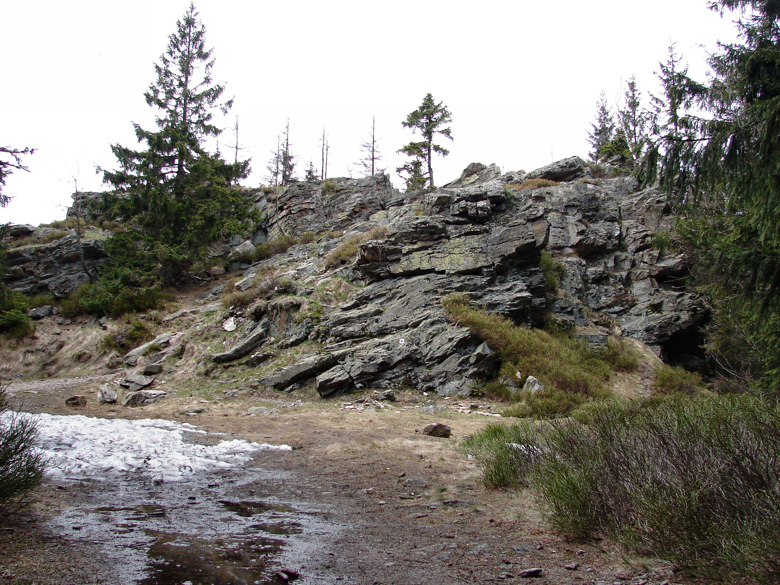 Janová skála in the Giant Mountains (Krkonoše)